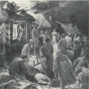 Illustration to Chekhov's novella 'Peasants' by Alexander Apsit